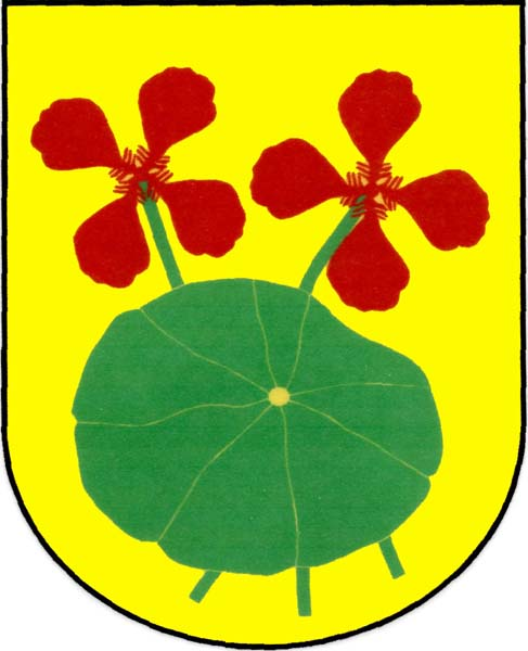 Coat of amrs of Řeřichy , District Rakovník, Czech Republic